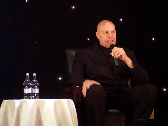 Michael Bailey Smith at Starfury: The Witching Hour, a convention for fans of the television series Charmed.